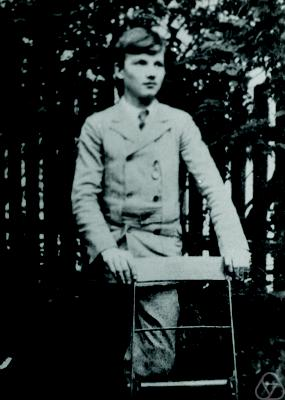 Franz Hilbert, son of the mathematician David Hilbert